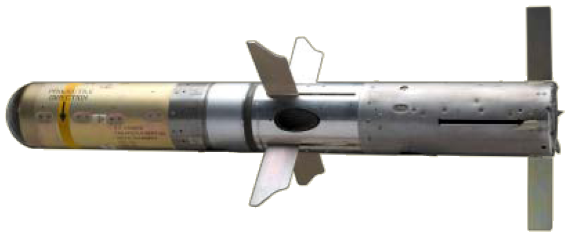 TOW flight configuration